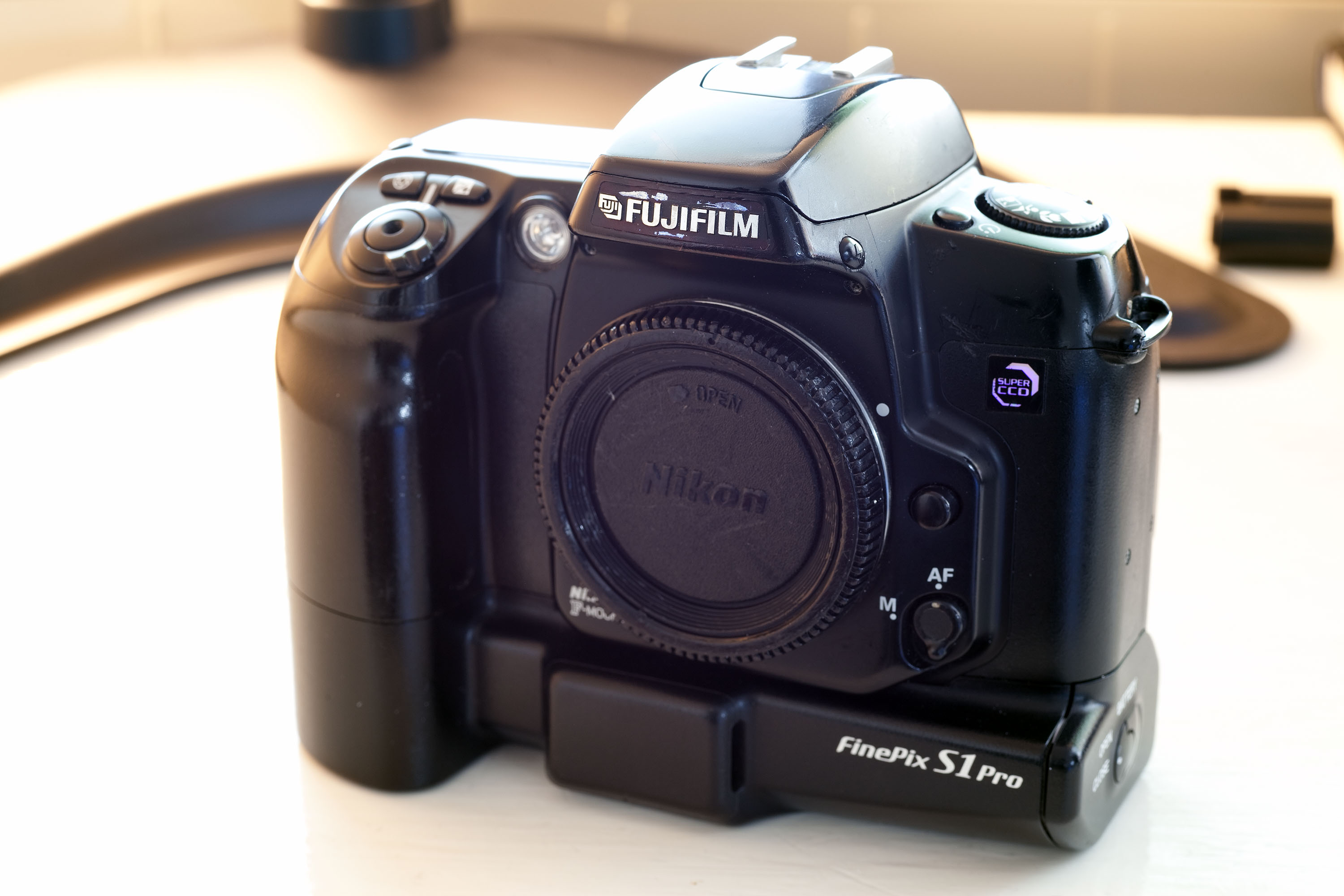 A well-used Fujifilm FinePix S1 Pro digital SLR.